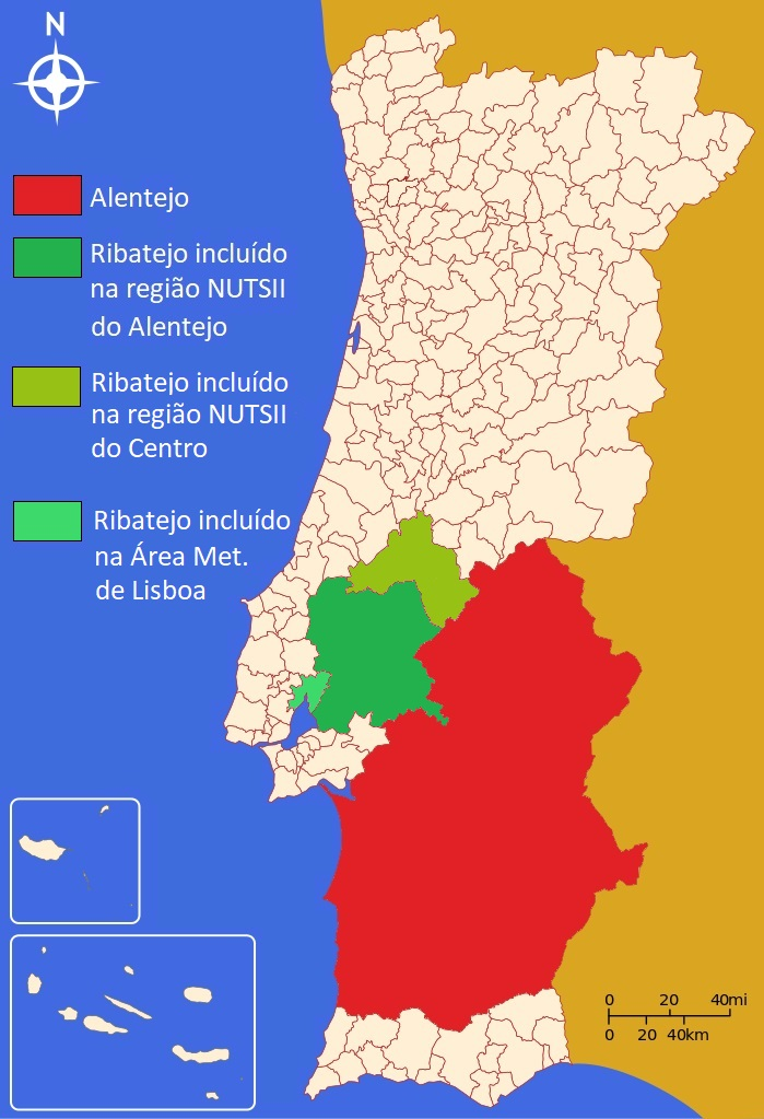 Alentejo (red) and Ribatejo (Forest Green, Kelly Green and Emerald Green) created from the file LocalSantoTirso.svg